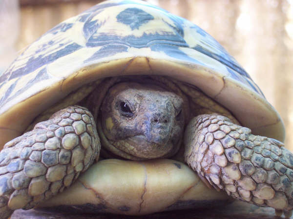 T.h. hermanni with spurs